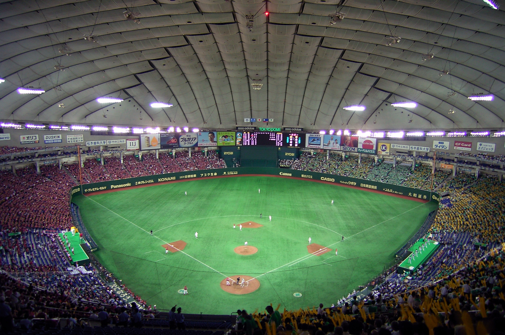 The Intercity Baseball Tournament 2007 Tokyo Dome